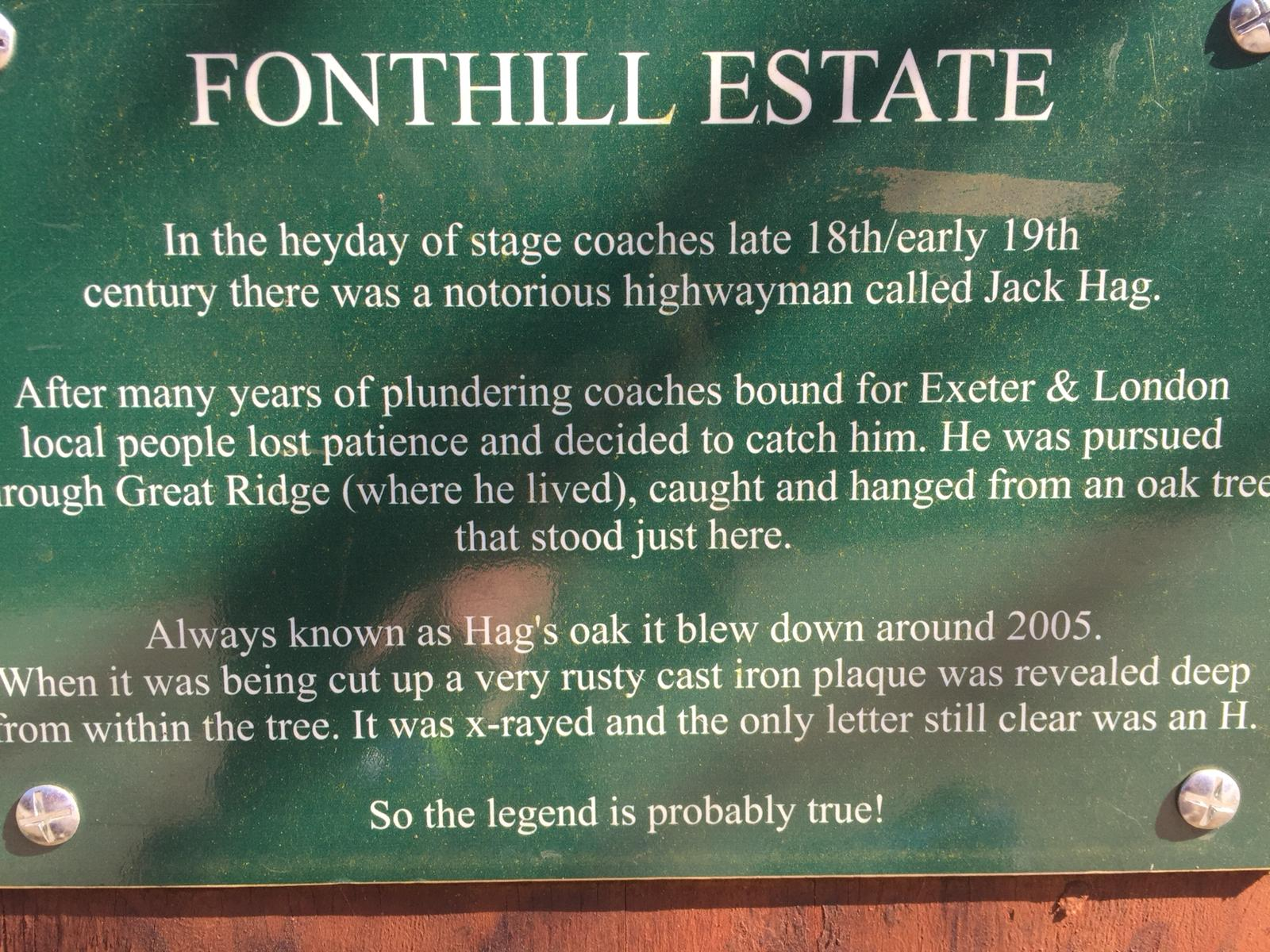 A sign from The Great Ridge Wood, in South Wiltshire, with information about a highwayman who was caught and hanged from a tree in the wood. The man, Jack Hag, was a criminal and the tree he was hanged from, blew down in 2005. This sign depicts what happened to him and the tree, as well as a plaque found inside the tree.